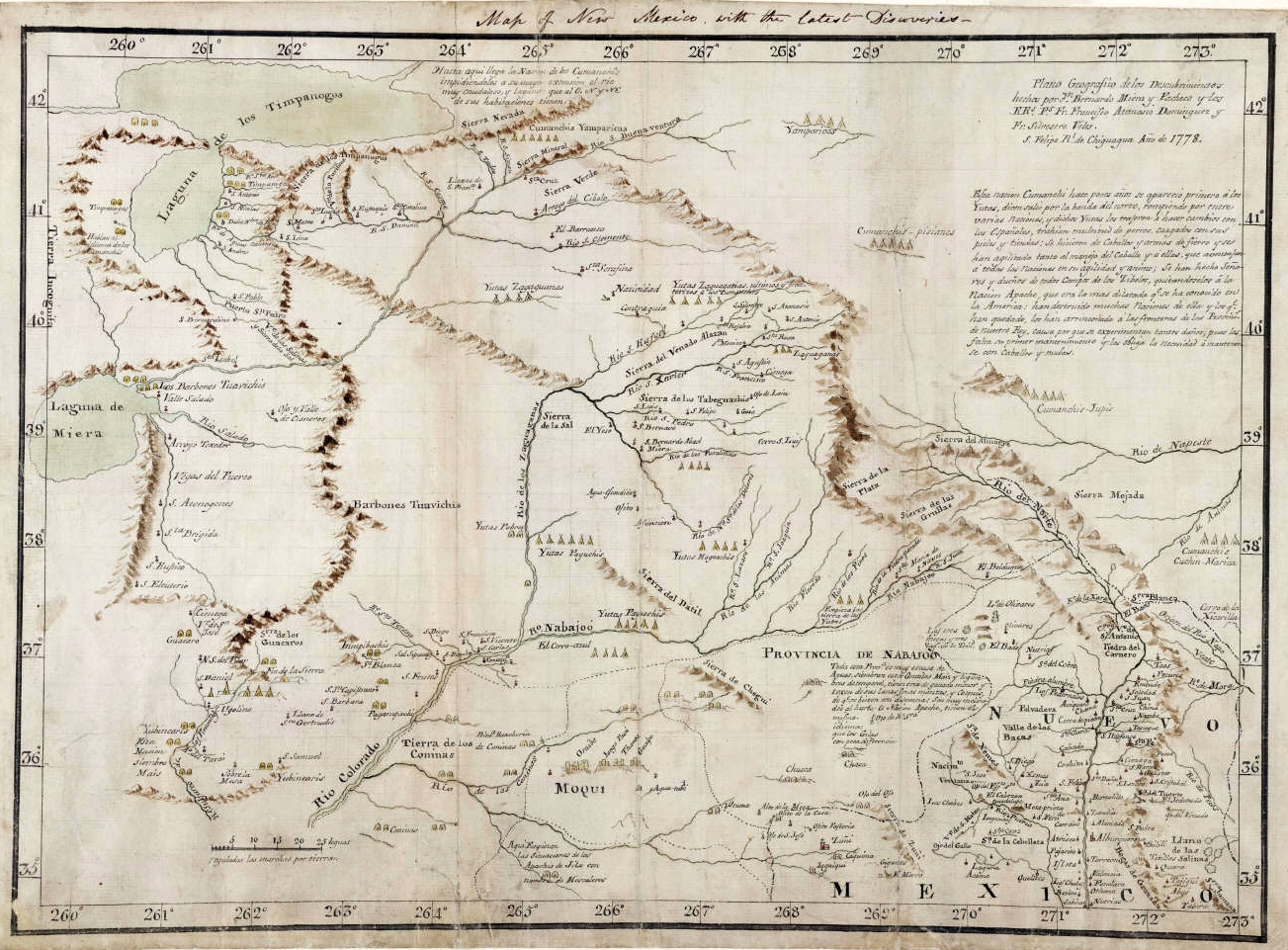 Map of north-western Nuevo Mexico (spanish New Mexico) by Bernando de Miera y Pacheco, 1778, drawn for king Charles III. of Spain